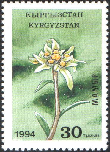 Stamp of Kyrgyzstan